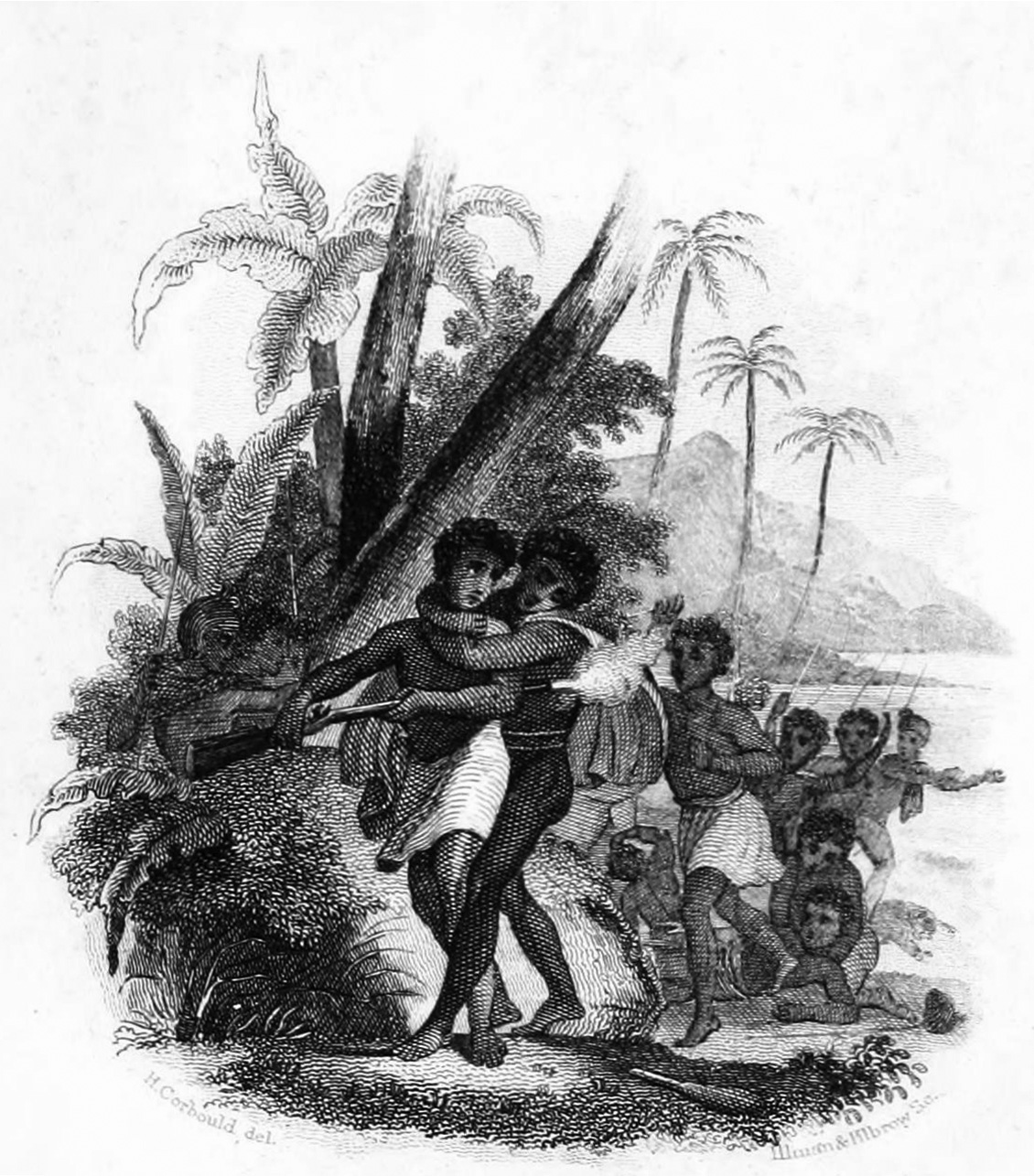 A scene from the Battle of Te Feipī, November 12, 1815. Raveae saves his life from the idolaters and death of Upufara [1]: Depicting Raveae killing an assailant from behind, who was trying to avenge the death of Upufara, the leader of the pagan Tahitian force. The scene is explained on Page 150: One of Mahine's men, Raveae, pierced the body of Upufara, the chief of Papara, and the commander-in-chief of the idolatrous forces. The wounded warrior fell, and shortly afterwards expired. As he sat gasping on the sand, his friends gathered round, and endeavoured to stop the bleeding of the wound, and afford every assistance his circumstances appeared to require. “Leave me,” said the dying warrior; “mark yonder man, in front of Mahine's ranks; he inflicted this wound; on him revenge my death.” Two or three athletic men instantly set off for that purpose. Raveae was retiring towards the main body of Mahine's men, when one of the idolaters, who had outrun his companions, sprang upon him before he was aware of his approach. Unable to throw him on the sand, he cast his arms around his neck, and endeavoured to strangle, or at least to secure his prey, until some of his companions should arrive, and despatch him. Raveae was armed with a short musket, which he had reloaded since wounding the chief; of this, it is supposed, the man who held him was unconscious. Extending his arms forward, Raveae passed the muzzle of his musket under his own arm, suddenly turned his body on one side, and, pulling the trigger of his piece at the same instant, shot his antagonist through the body, who immediately lost hold of his prey, and fell dying to the ground.